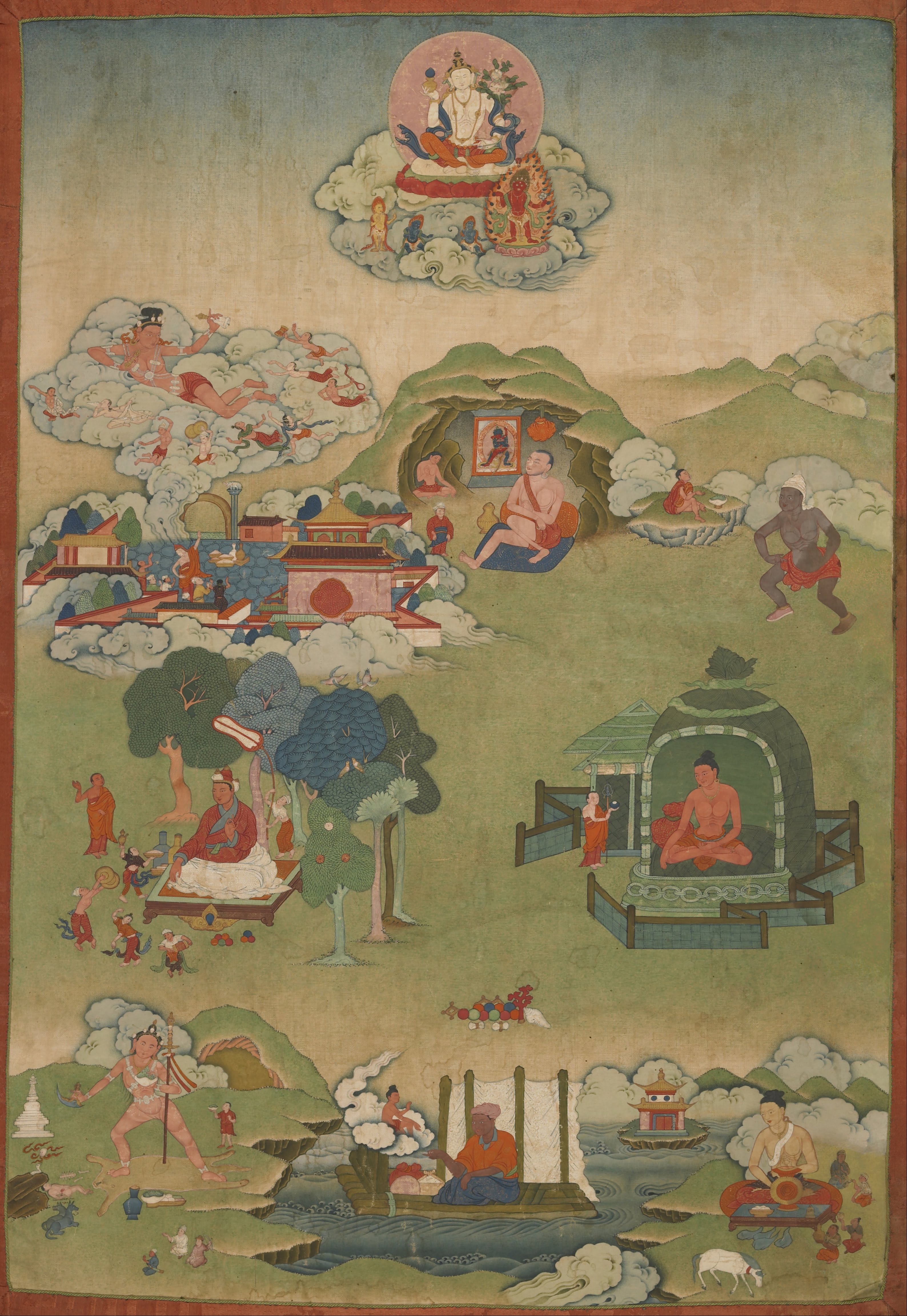 This is the last painting of an eleven-painting set from Palpung monastery and dedicated to “The Eighty-four Great Tantric Adepts (Mahasiddhas). Especially interesting is the figure of the great adept Putalipa at top center, seated in a cave and gazing at an image of the meditational deity Samvara. The scene offers a view of a tantric Buddhist icon in use. Above in the sky are the white bodhisattva Samantabhadra and, below him, small, red wrathful figure Cakhavartin. The other figures can be identified as: the bodhisattva Samantabhadra; Darikapa; Putalipa; Upanaha; Kokilipa; Anangapa; Lakshmikara; Samudra; Vyalipa.